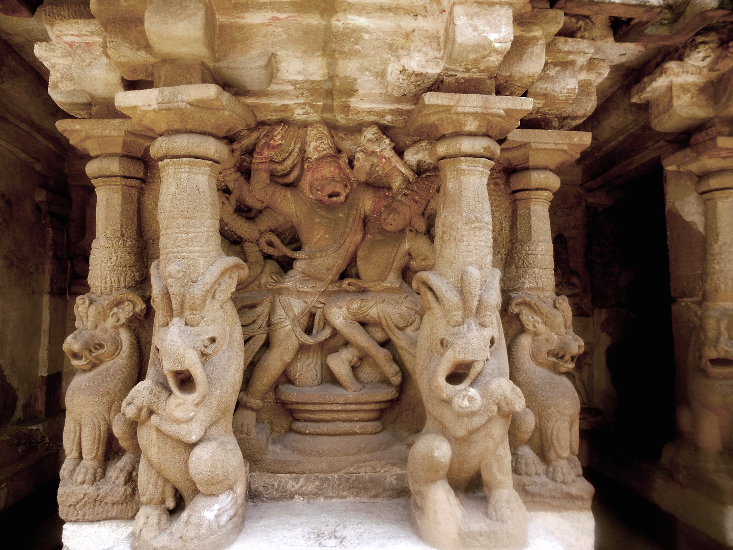 Kailasanatha Temple